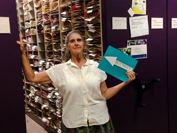 Image courtesy of the Missouri Botanical Garden as per Dr. Taylor and Lauren Boyle.